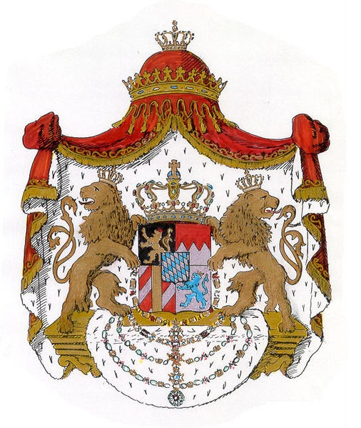 Coat of arms of Kingdom of Bavaria (1835–1918)